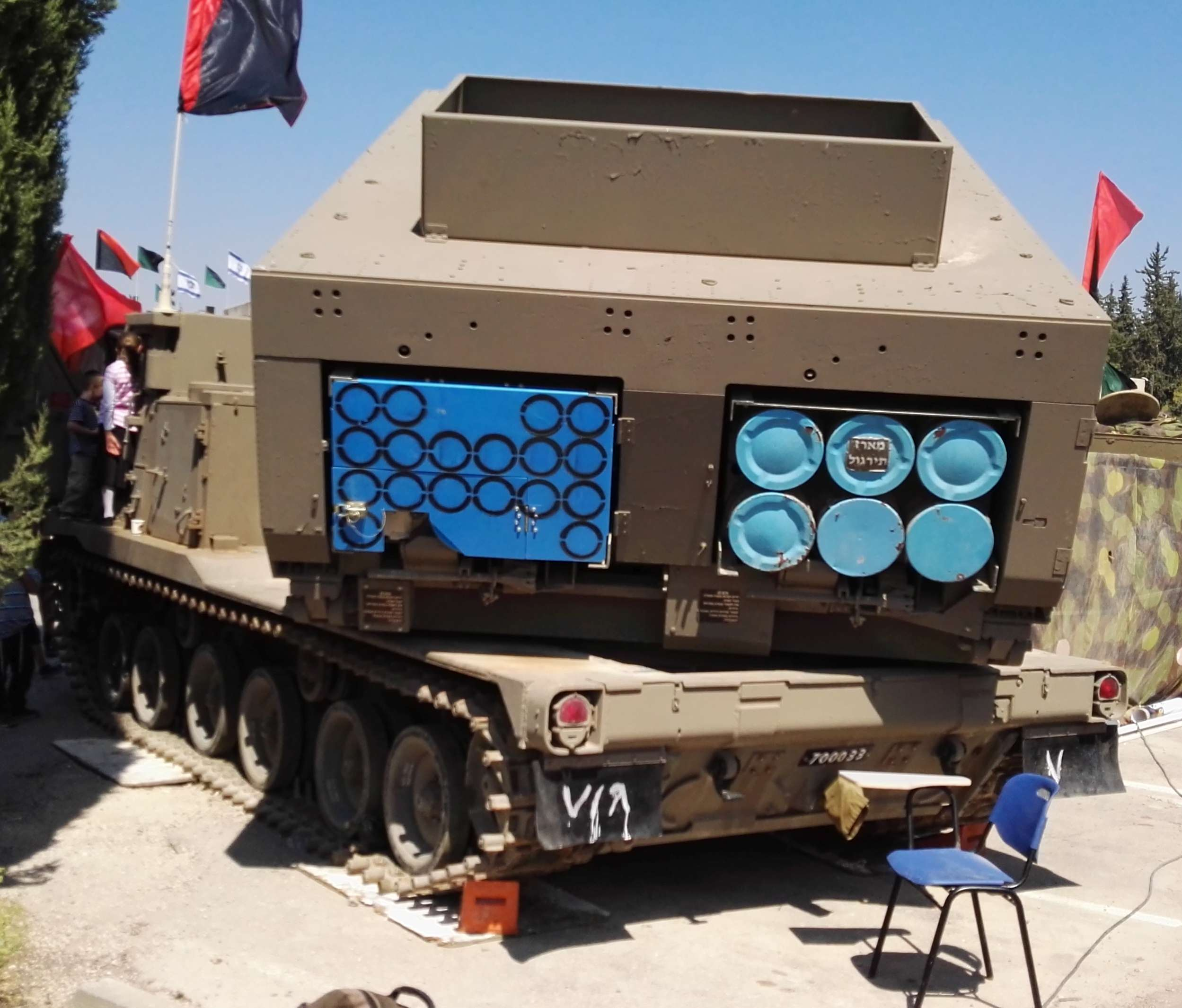 Israel 68th Independence Day Exhibition, Latrun - M270 MLRS.